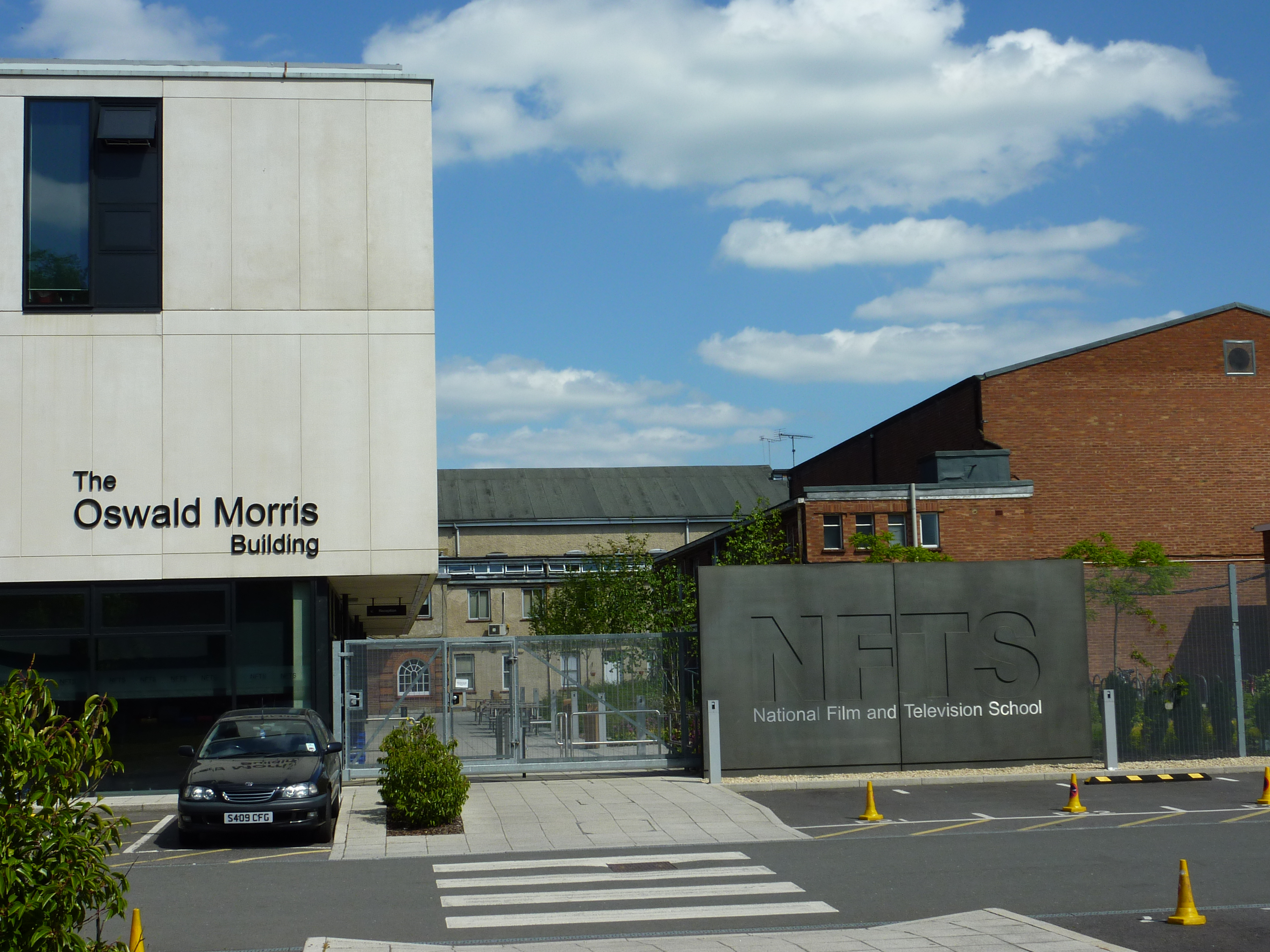 Beaconsfield Film Studios, current home of National Film and Television School. From left to right: The Oswald Morris Building, original film sound stage building, TV studio building. Author: Simon Richards